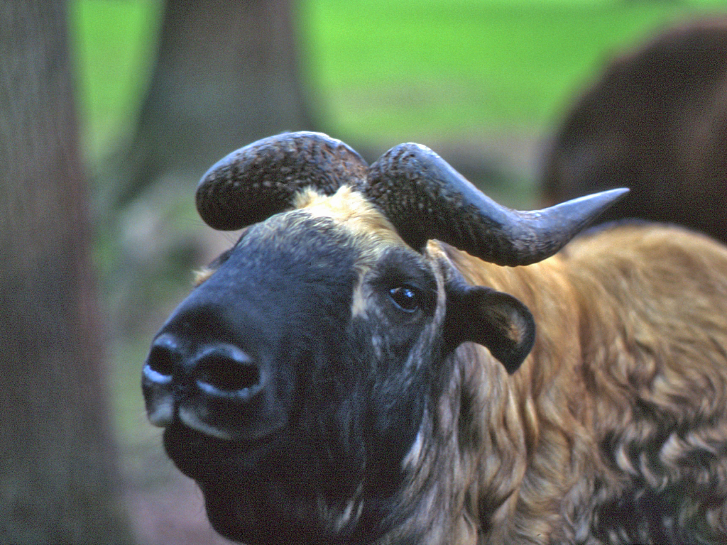 Budorcas taxicolor, male. Mishmi-Takin.